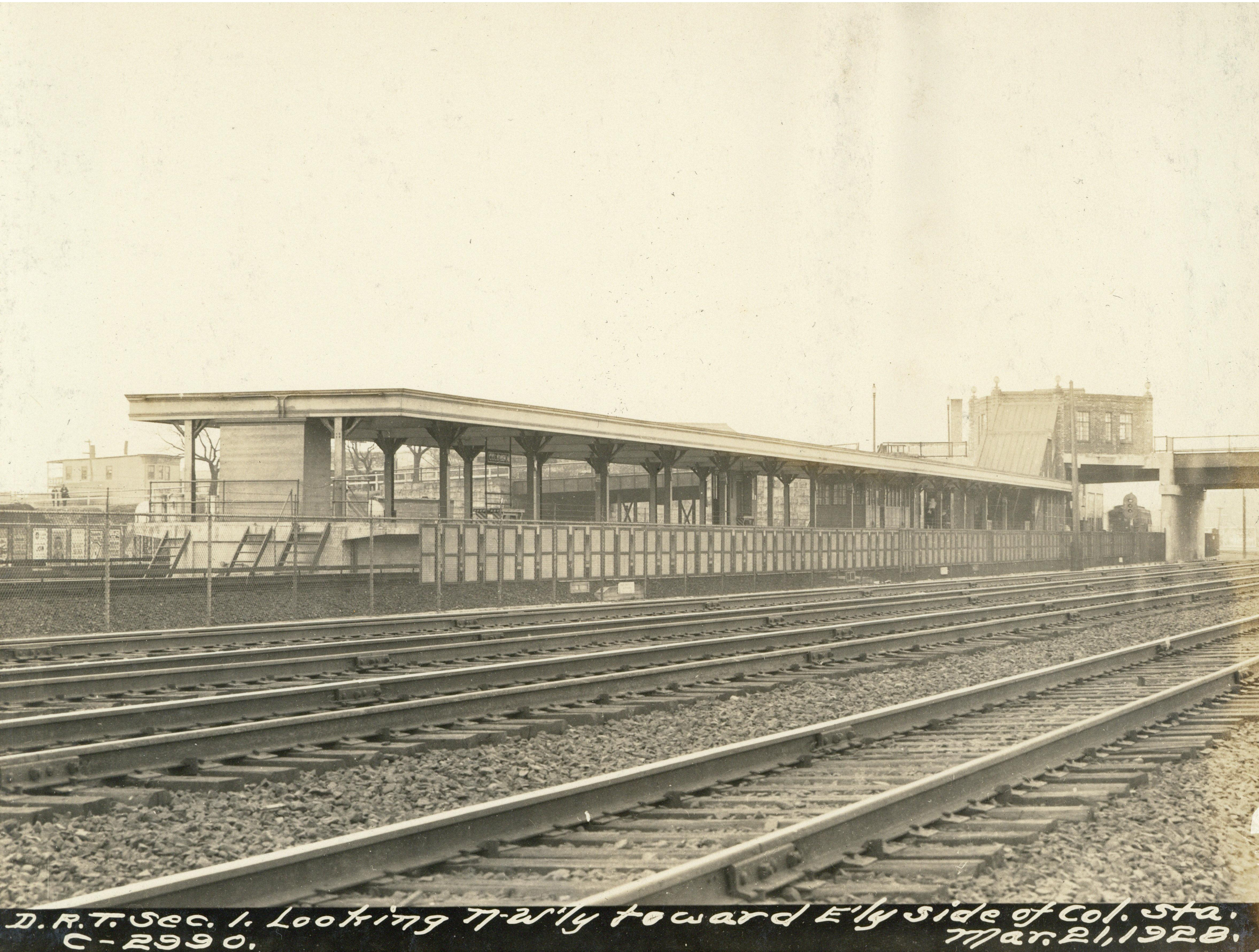 Columbia station from the parking area in March 1928